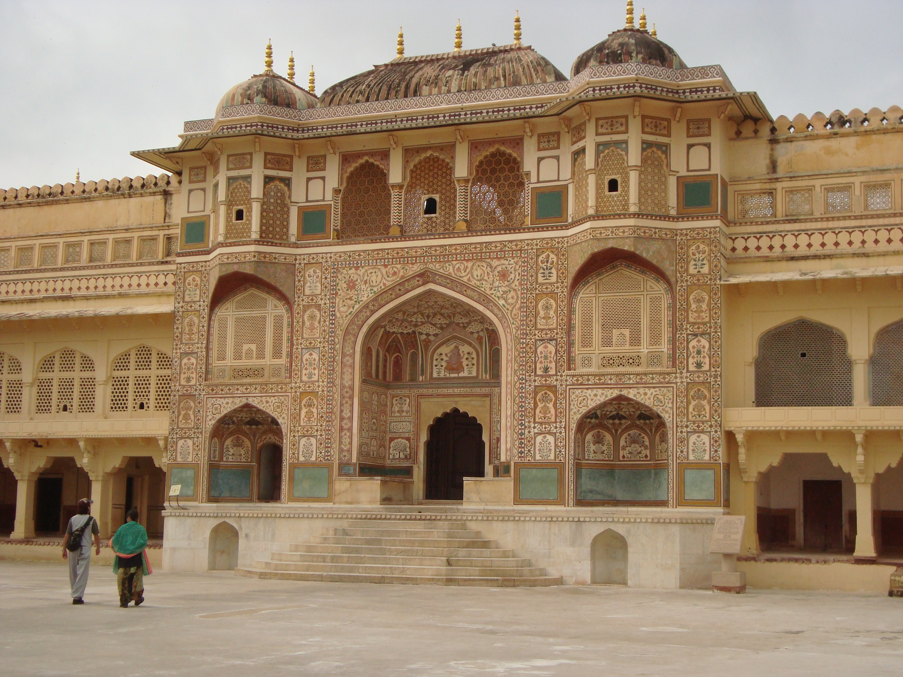 Ganesh Pol (Ganesh Gate) of Amber Fort